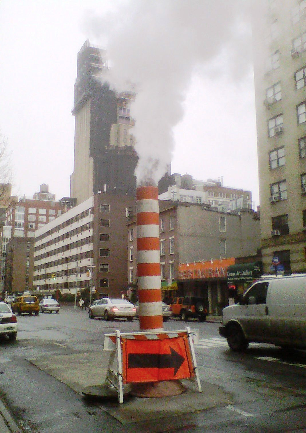 A Con Edison red-and-white steam stack venting steam vapor from below the street at Seventh Avenue and West 20th Street in Manhattan. Steam vapor such as this can be caused by a leak in ConEd's steam system – which heats, cools and provides power for buildings in Manhattan up to West 89th and East 96th Street – or by cooler water contacting the outside of a steam pipe. (Source: [1])